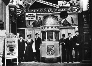 Grand Theatre in Buffalo NY